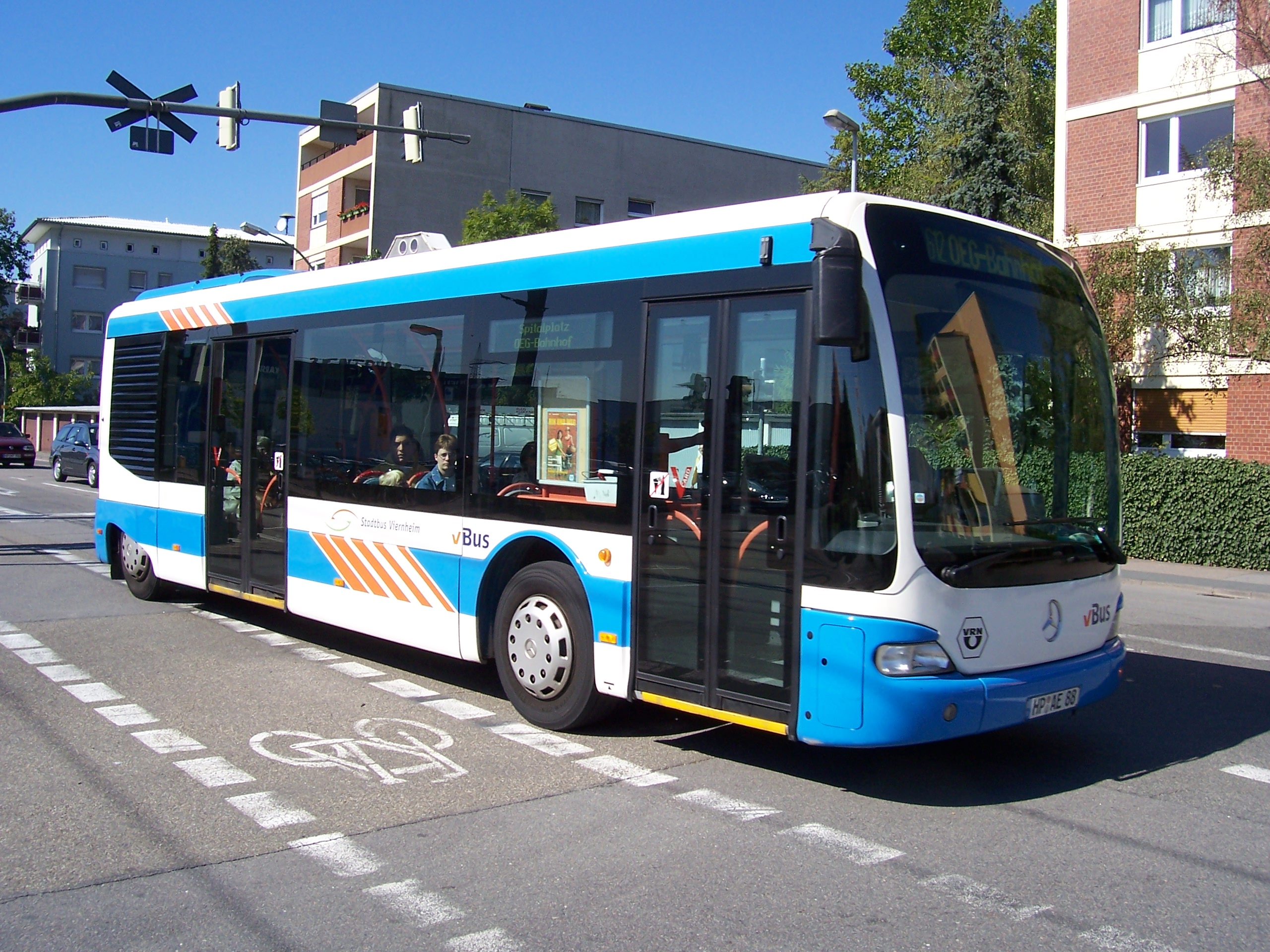 A Mercedes-Benz Cito city bus in Viernheim, Germany. My own photo from 20-sep-2005